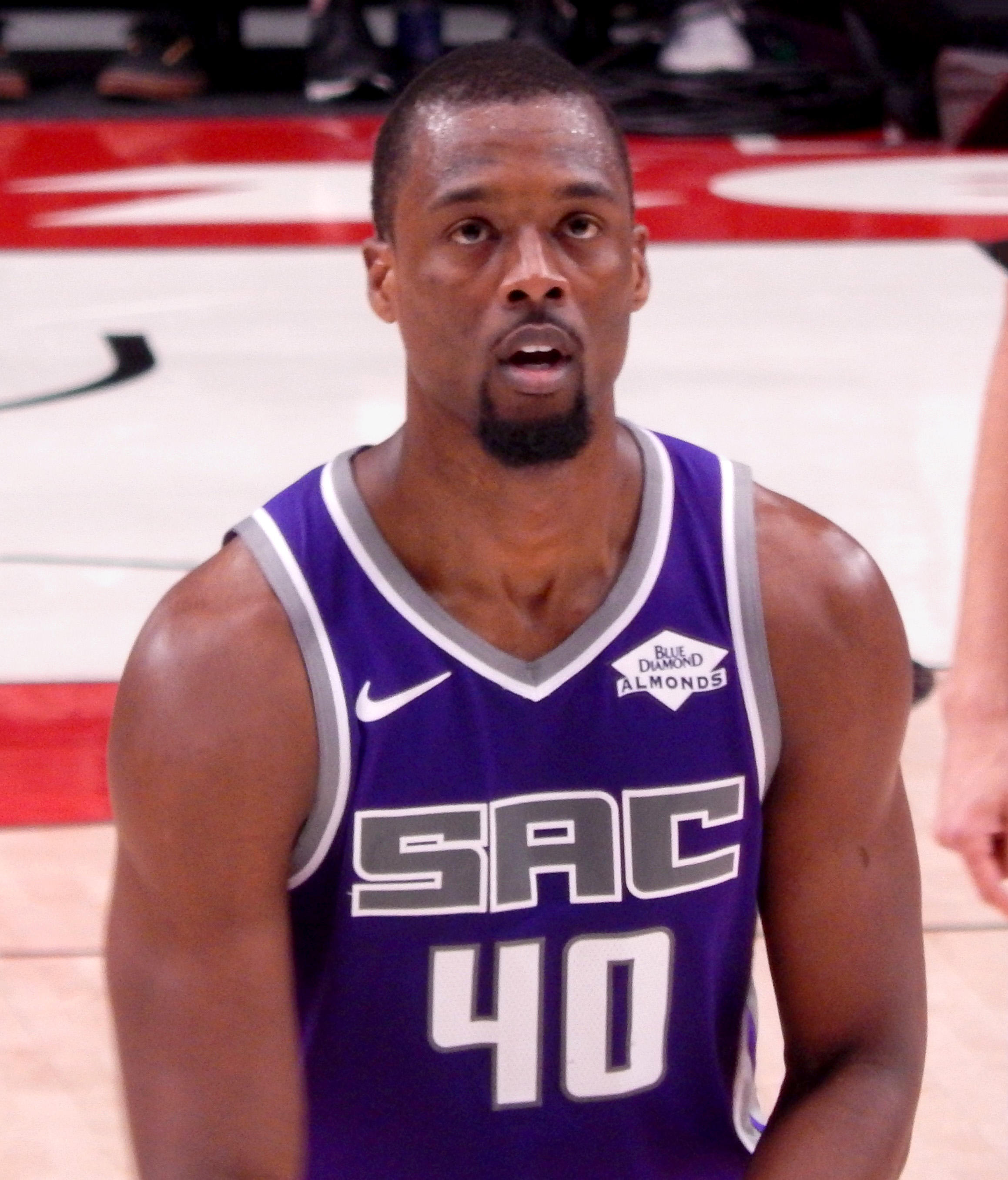 Harrison Barnes #40 of the Sacramento Kings shoots a free throw during the game against the Portland Trail Blazers on December 4, 2019 at the Moda Center Arena in Portland, Oregon.